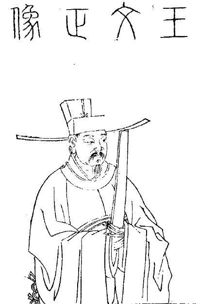 A depiction of Wang Dan (Song dynasty), prime minister of the Song dynasty